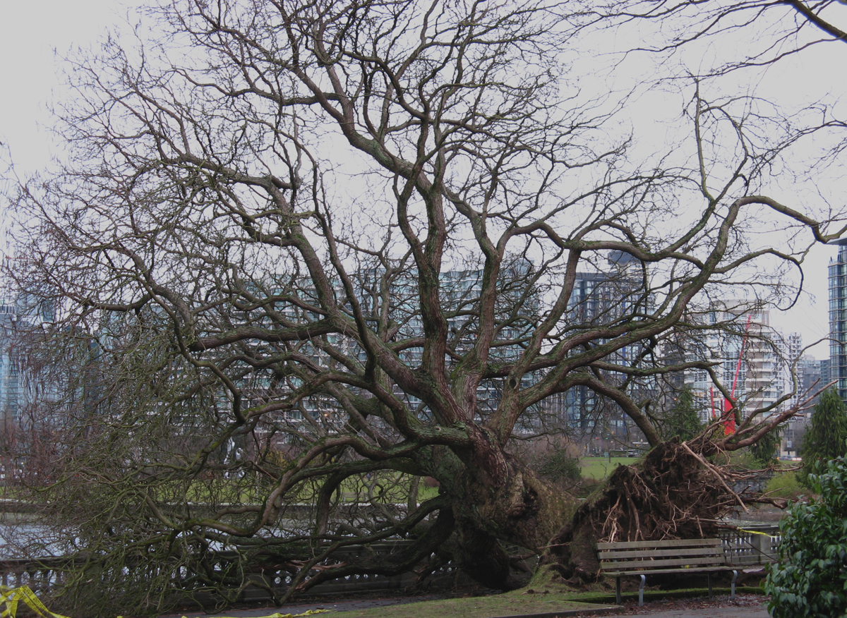 Tree uprooted by 15 Dec. storm in Stanley Park, Vancouver, Canada. Taken by me.